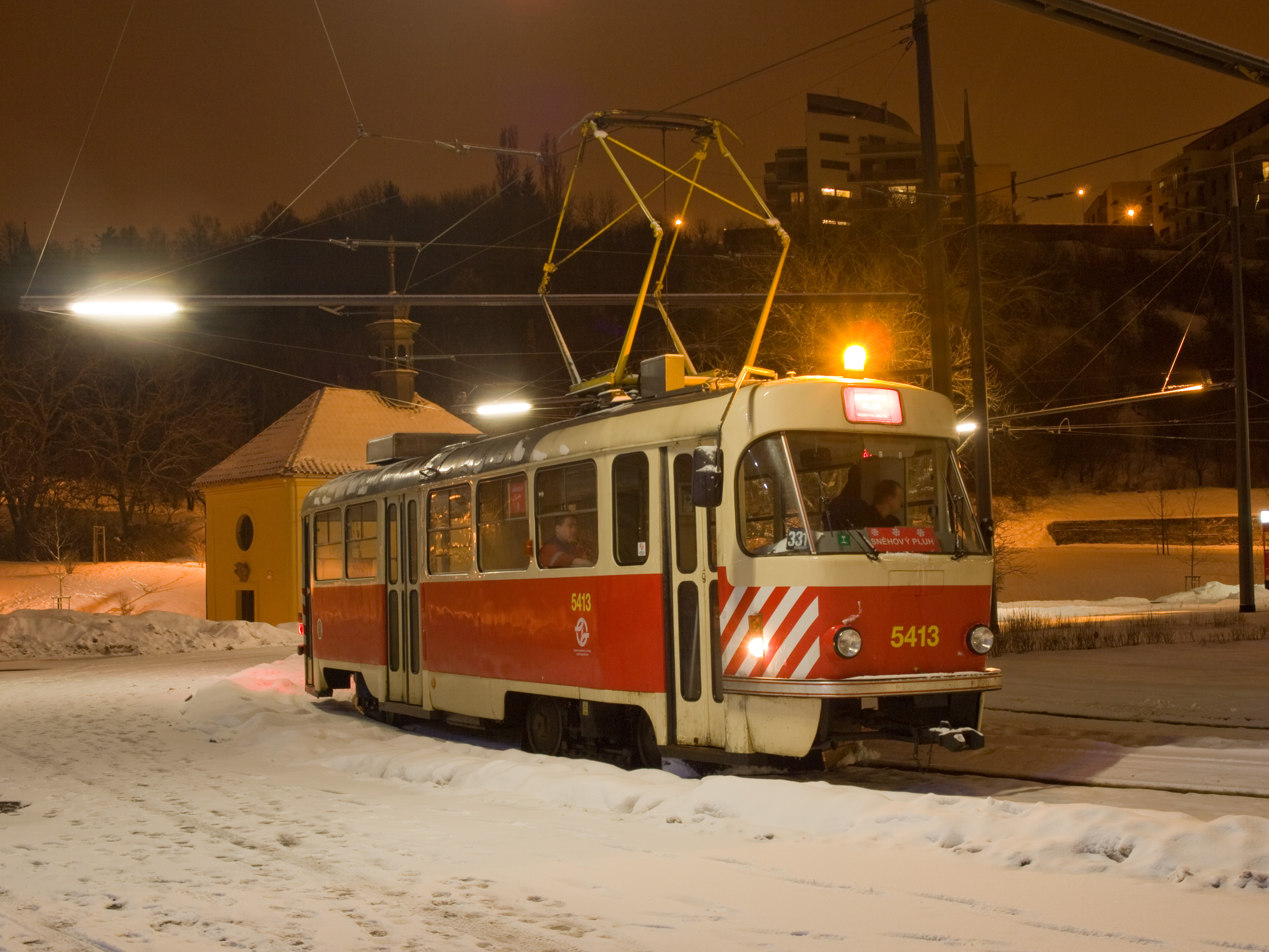 Special tram reg. number 5413 in Radlice tram loop